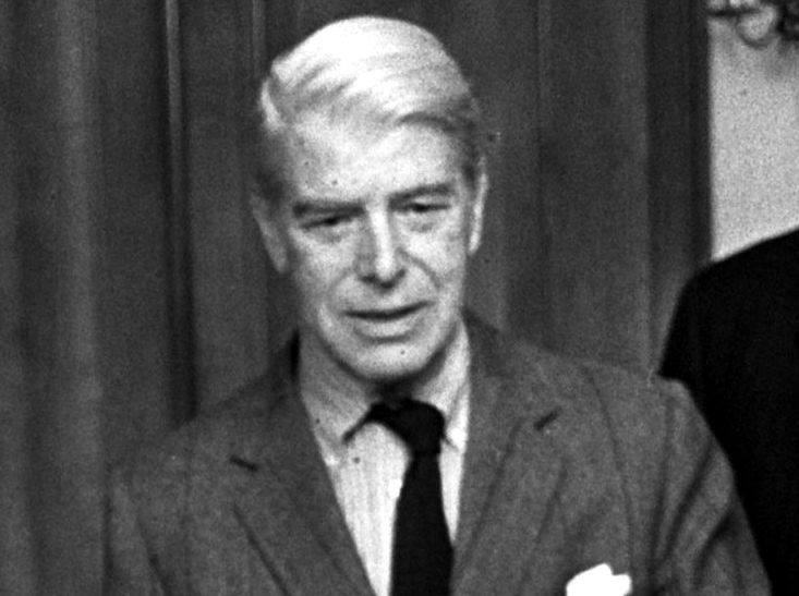 Karel van Veen, 1973